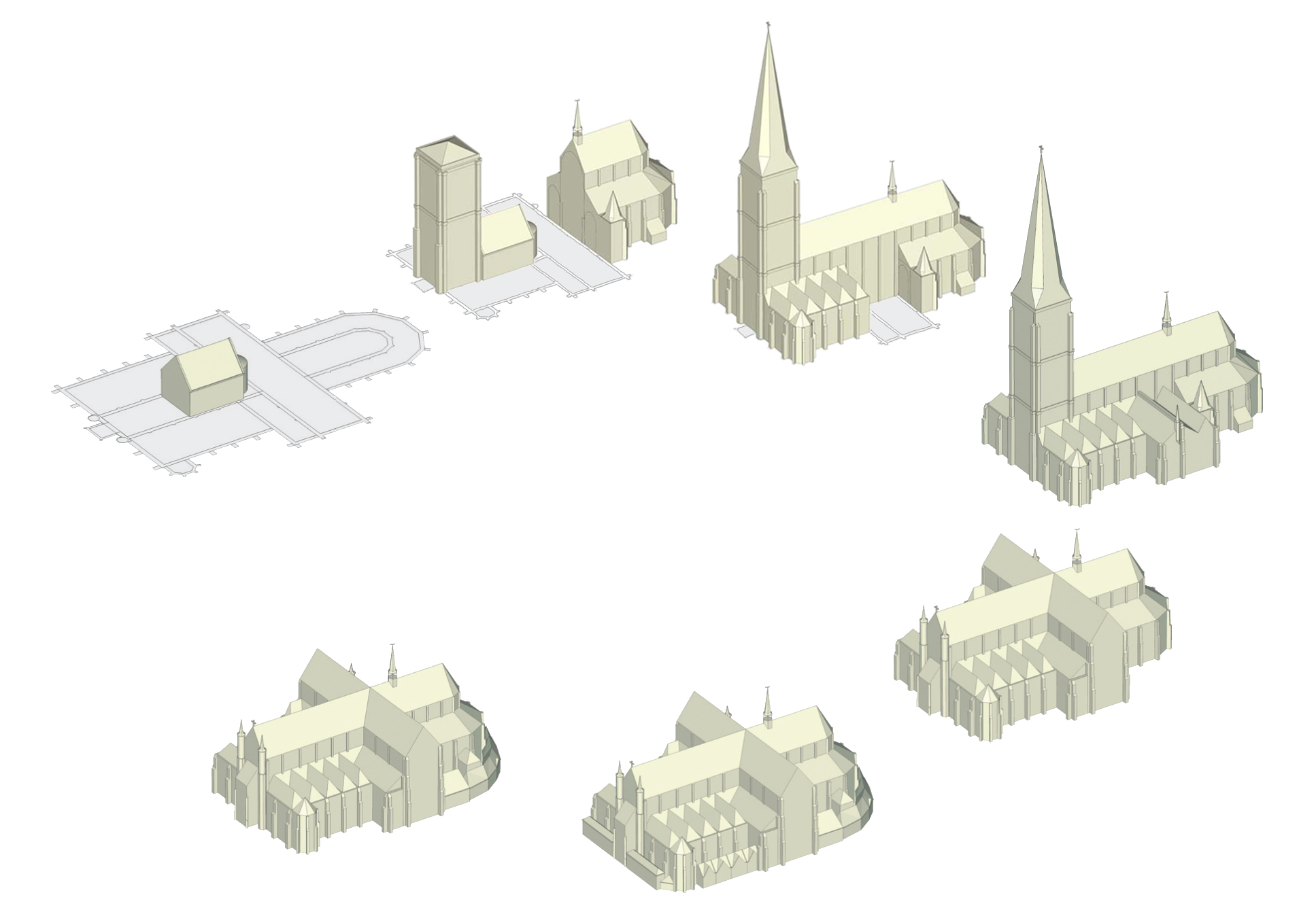 the becoming of he pieterskerk